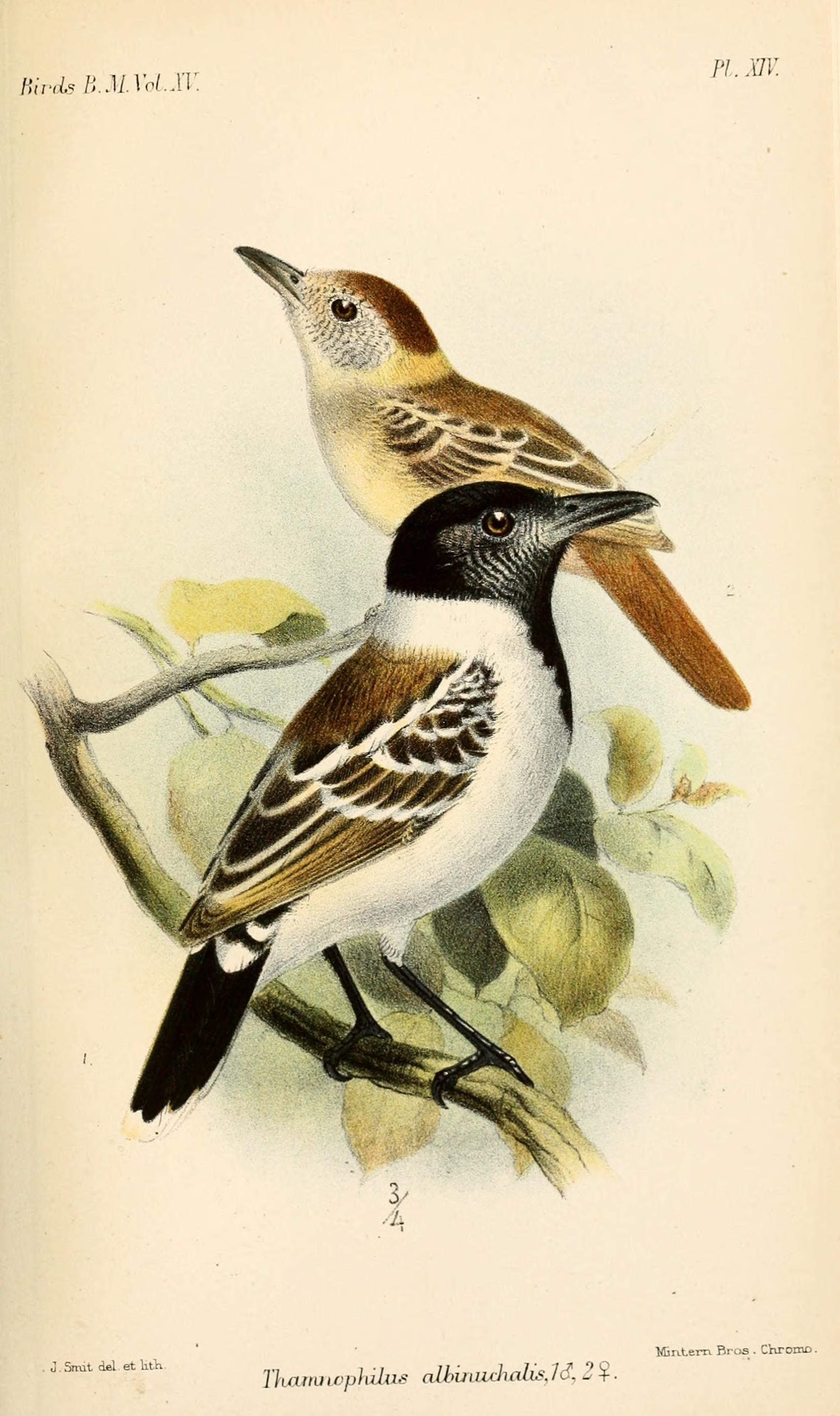 Title: Catalogue of the Birds in the British Museum Year: - 1890 1890 - 1890 (1890s) Authors: British Museum (Natural History). Department of Zoology. (Birds) Subjects: Publisher: London Text Appearing Before Image: iin-.i? n.M.Voi-A PI. All: Text Appearing After Image: . 5mit del et UtK Tiianu wphikis alhuaichahs, IS, 2 %. Mjn.terrx Brcxs. ChromD.